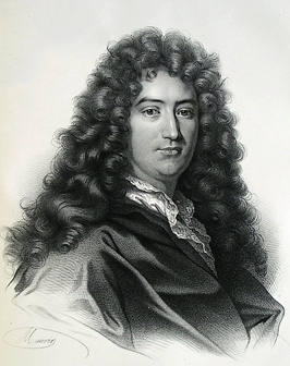 French playwright Jean-François Regnard (1656-1710).